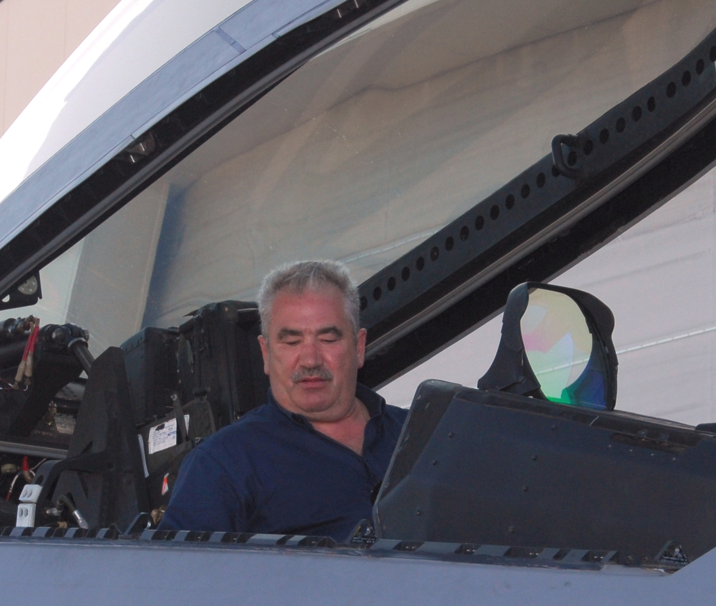 Michael Billen, member of the Rheinland-Pfalz State Parliament in Germany, sits in the cockpit of an F-22 Raptor April 29.